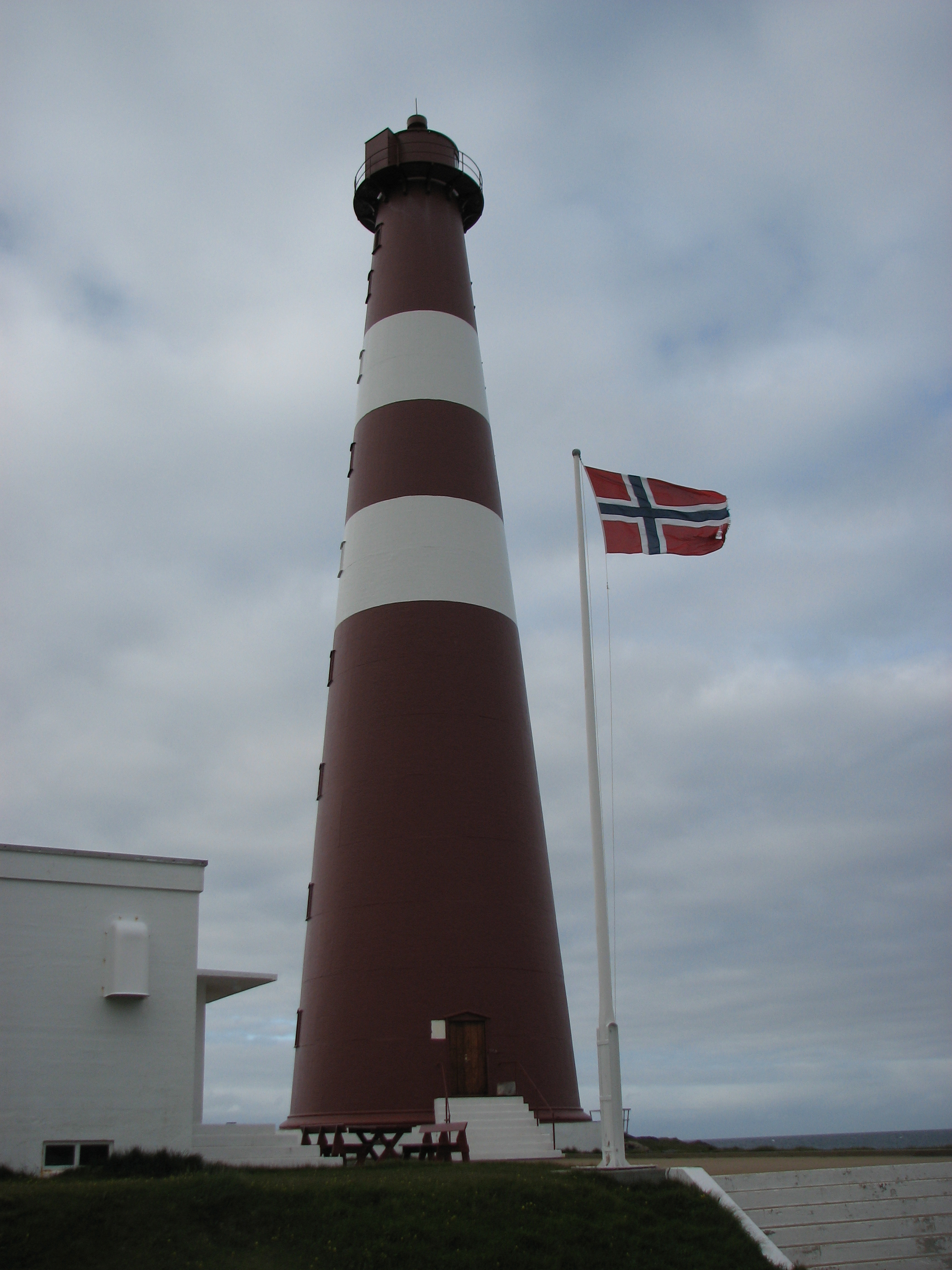 Slettnes lighthouse, near Gamvik, Norway